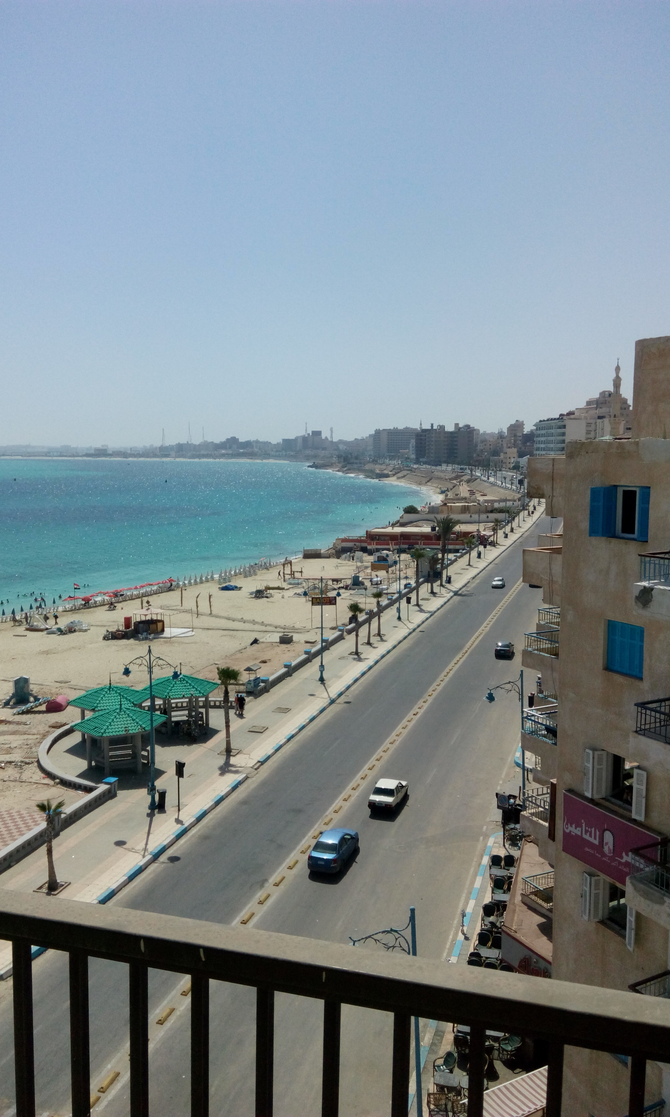 Mersa Matrouh Corniche